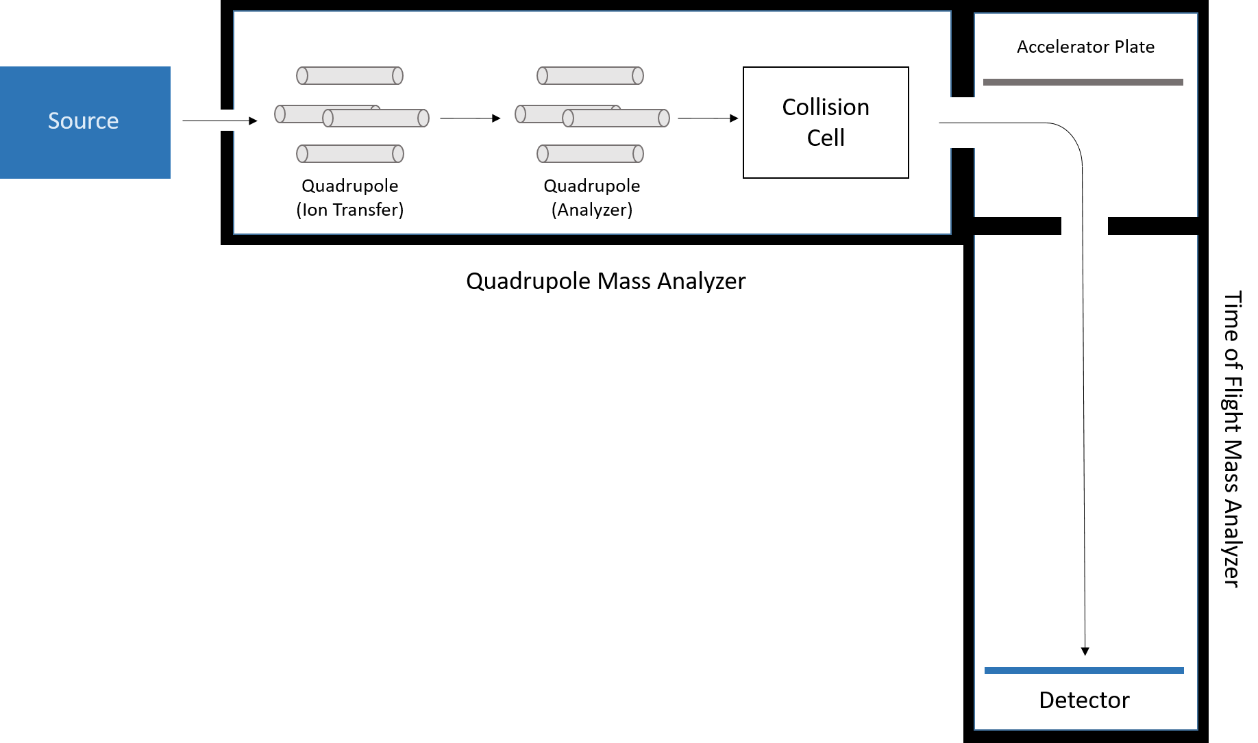 Block Diagram of QToF MS